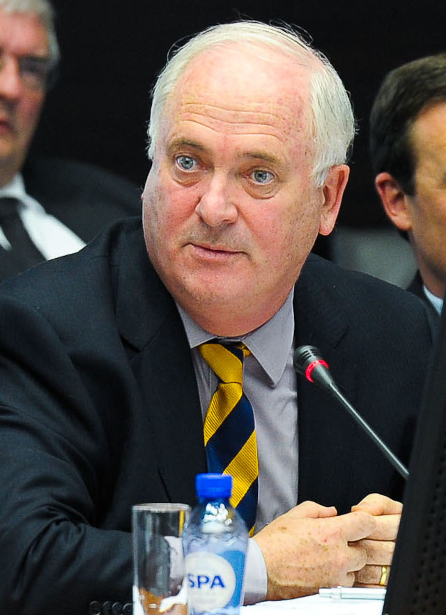 John Bruton, Fine Gael leader (1990-2000) and Taoiseach (1995-1997)